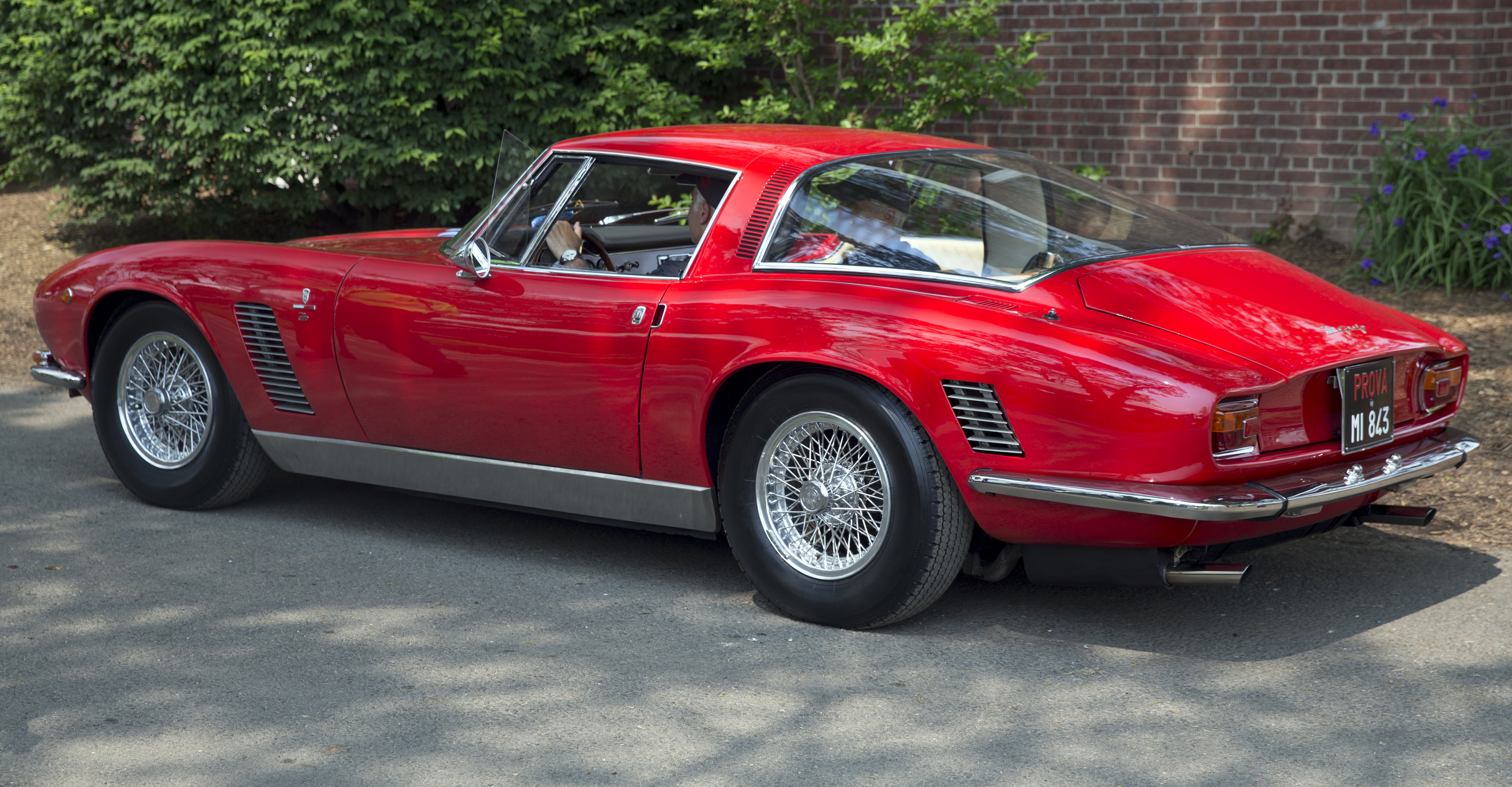 1969 Iso Grifo leaving the 2019 Greenwich Concours d'Élegance. Owned by Darren Frank of North Carolina, this well-publicized car is often referred to as "the best Grifo on the planet." He never trailers it, always drives it to shows, no matter how distant.